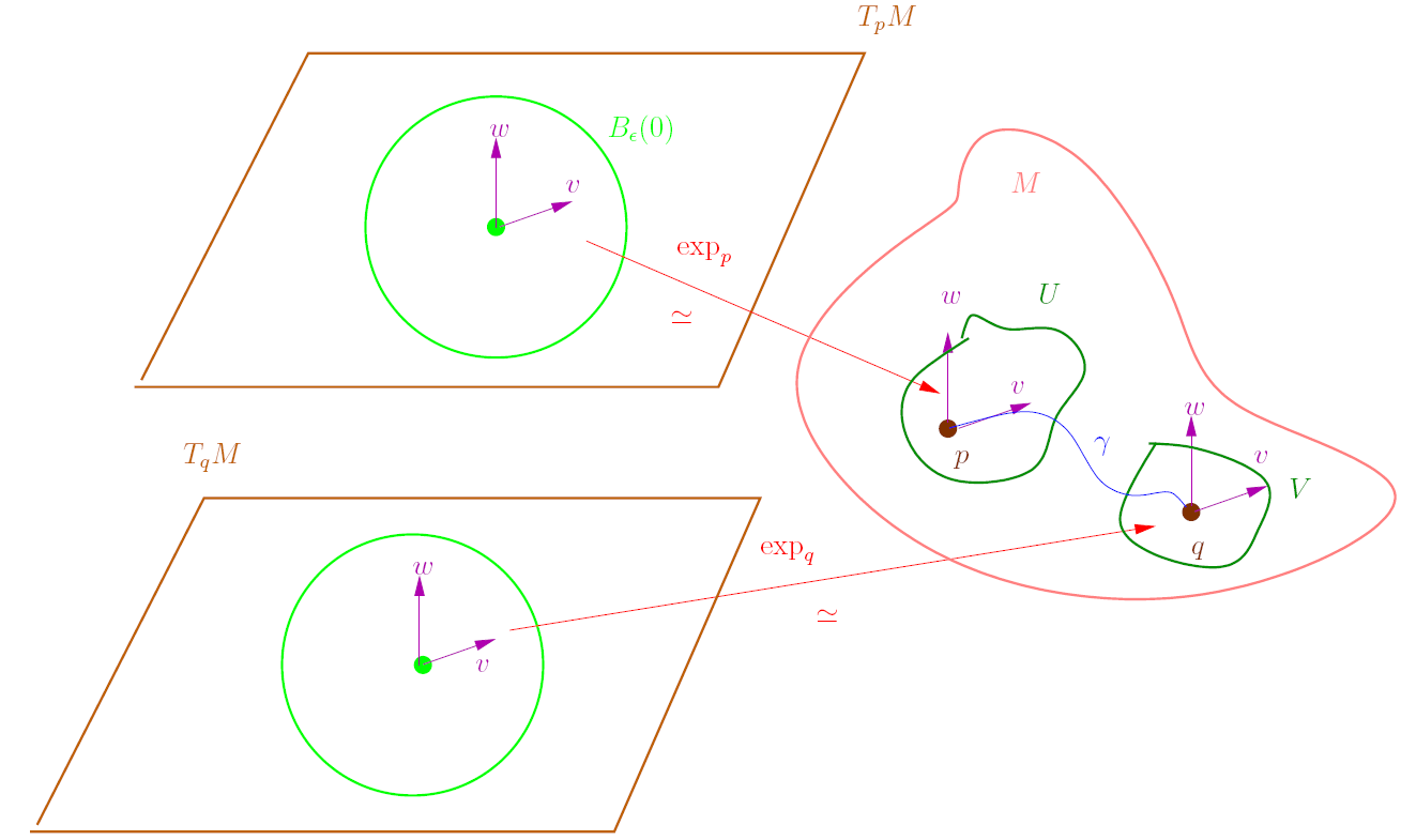 Scheme of the exponential as a radial isometry